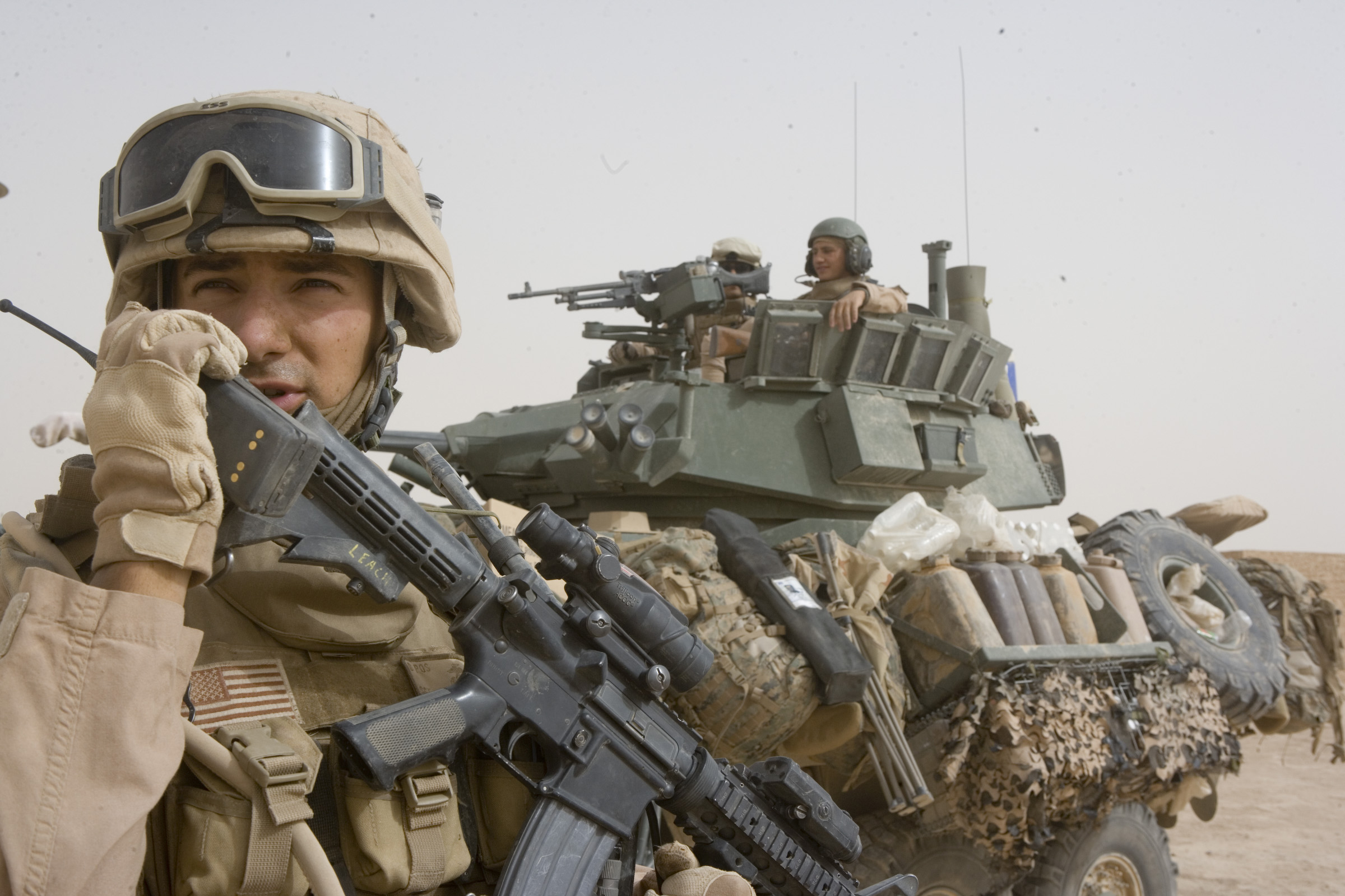 U.S. Marine Corps Sgt. Daniel Leach radios fellow Marines during an operation in the Al Anbar province of Iraq on June 11, 2008. Leach is assigned to 2nd Platoon, Delta Company, 2nd Light Armored Reconnaissance Battalion, a ground combat element attached to Task Force Mechanized, Multi National Force - West.